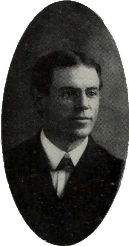 Portrait of John Heisman in the 1901 Clemsonian